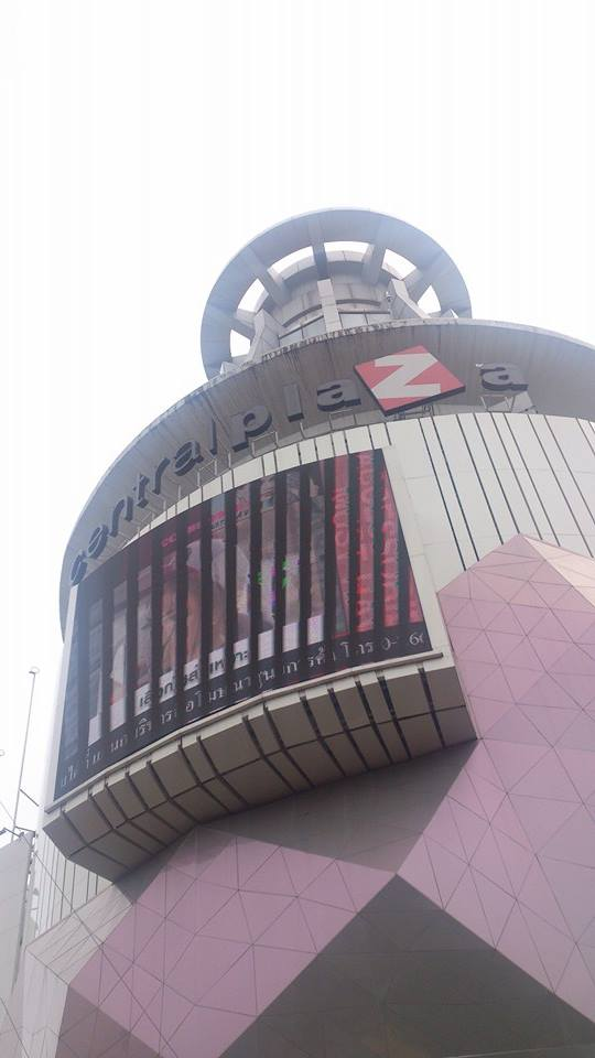 CentralPlaza Pinklao with new facade